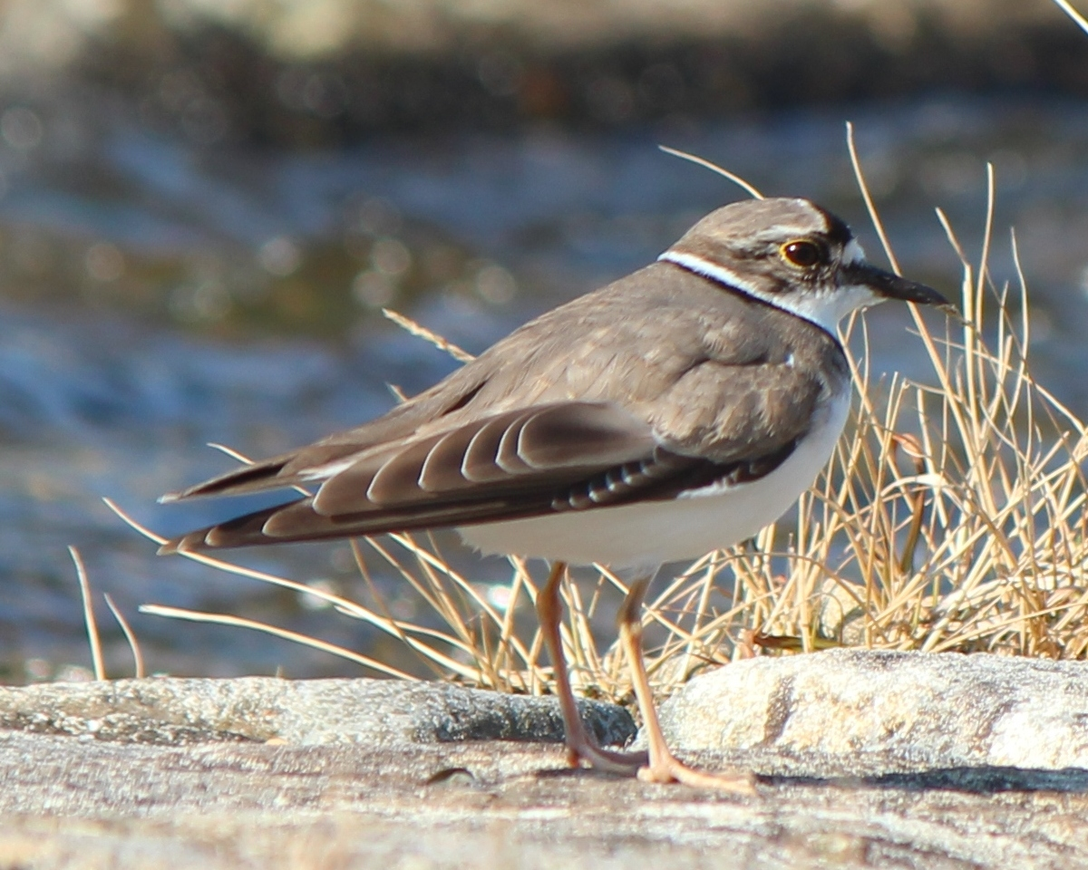 Charadrius placidus japonicus (Long-billed plover) in Japan.